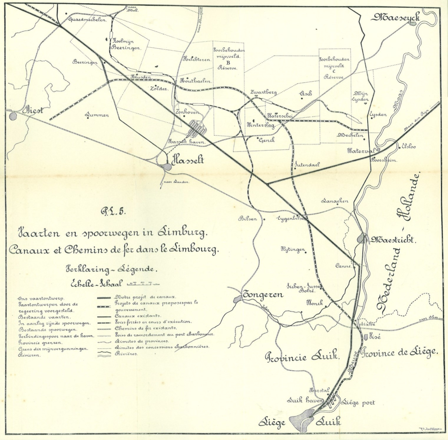 The plan of the government and that of later minister Jules van Caenegem for building the Albert Canal (Eastern Belgium, 1922)